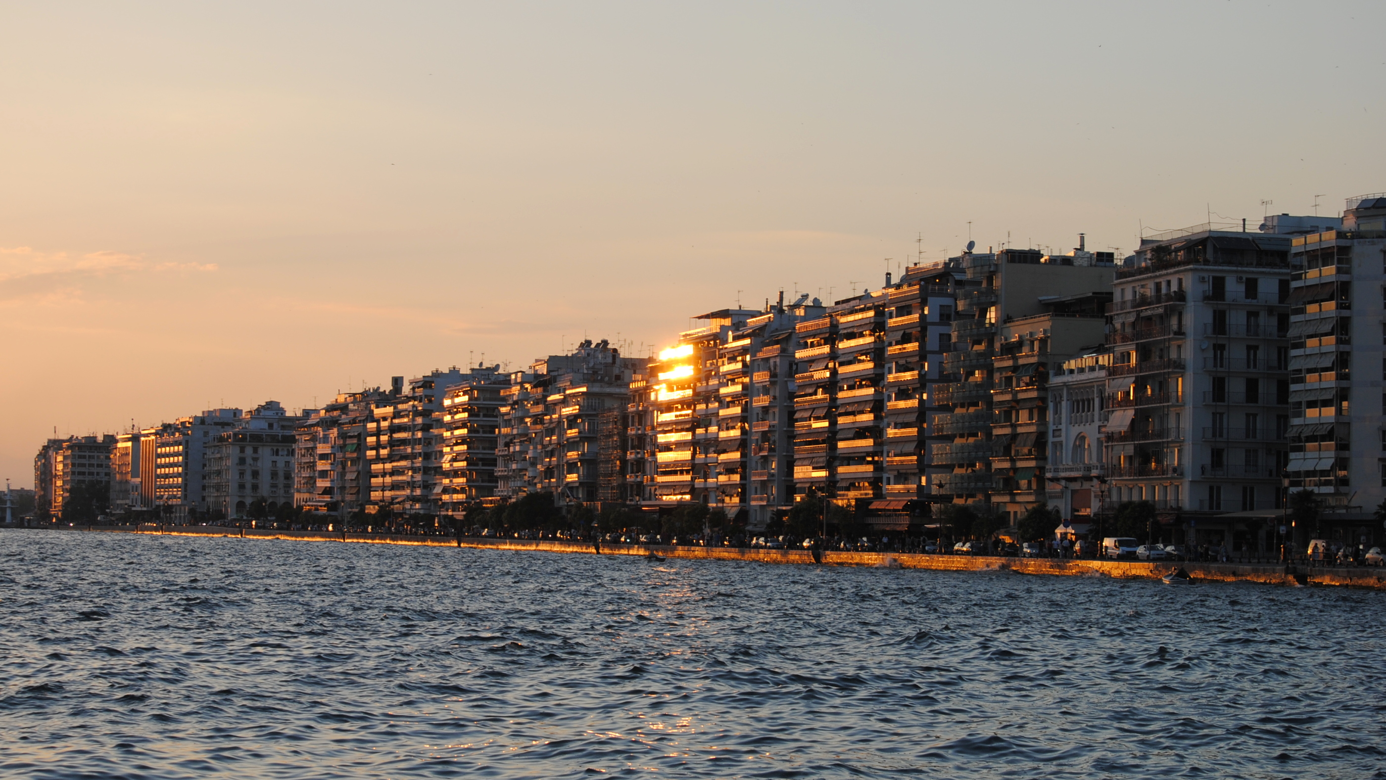 Thessaloniki, Greece